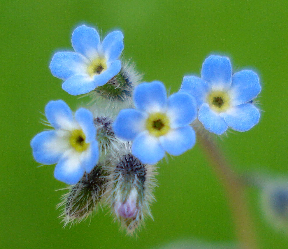 Myosotis ramosissima (Unterfranken, Germany)